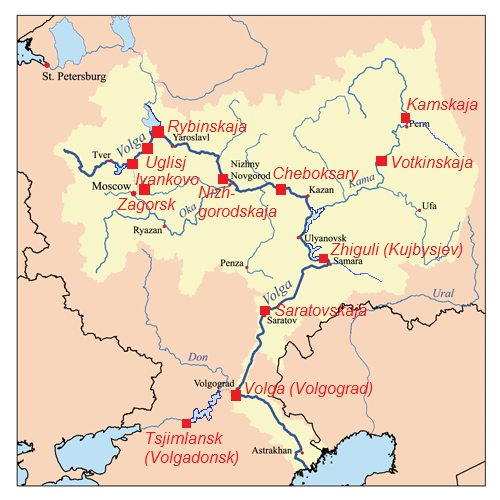 Work based on original from Karl Musser. The map has no Nizhnekamsk Power Station.